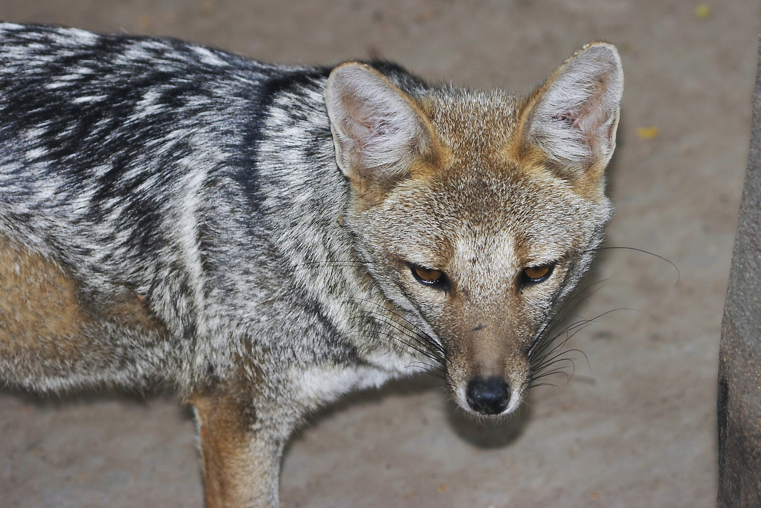 Description: Originally identified as Urocyon cinereoargenteus, under the Spanish name zorro gris (directly translated "gray fox"), at América's zoo, Argentina. However, gray foxes have a very different shape and cinnamon sides, which this one does not. According to an anonymous edit on the article for the pampas fox on en.wiki (IP 77.255.120.124 on 10:38, 8 April 2010), the other photo (File:Zoo América-2874f-Urocyon cinereoargenteus.jpg) uploaded by this user shows the pampas fox (Lycalopex [Pseudalopex] gymnocercus). Furthermore, zorro gris in Argentina typically involves one of THEIR native foxes that largely are gray, i.e. the South American gray fox (Lycalopex [Pseudalopex] griseus) or, less frequently, the pampas fox (Lycalopex [Pseudalopex] gymnocercus). The two species are quite similar. Photographer: Usuario:Barcex